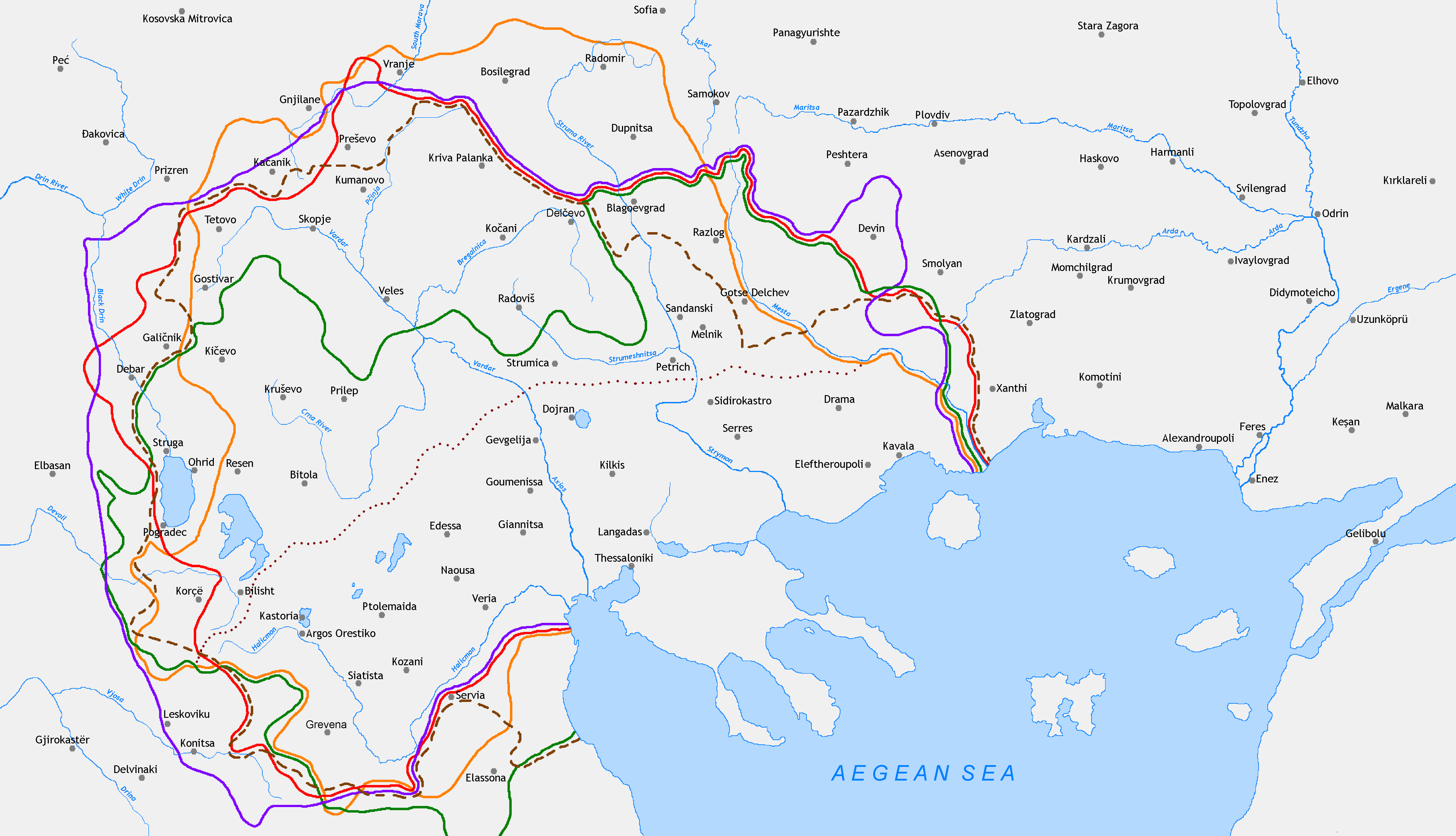 Borders of Region of Macedonia according authors (1843-1927). according to Alexander Hadji Russet (1843) according to Spiridon Gopcevic (1889) according to Kleanthis Nikolaidis (1899) acording to Vasil Kanchov (1900) according to an anonymous Greek author (1906) according to Leonhard Schultze (1927)